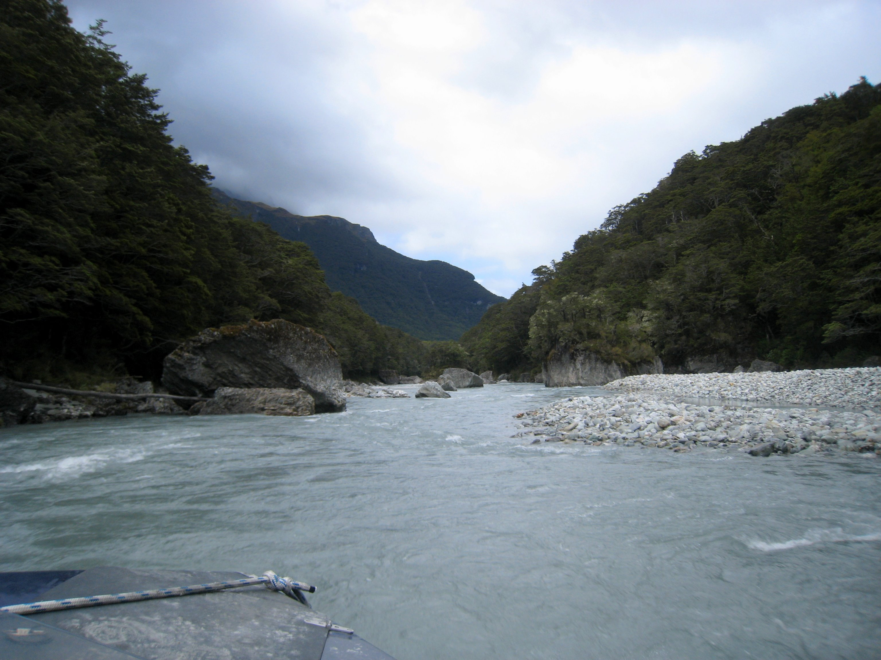 Approaching the narrows on the Dart River in Otago, New Zealand.